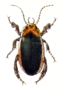 Hydaticus transversalis, from Calwer's Käferbuch, Table 7, Picture 7. Taxonomy was updated to 2008, using mostly the sites Fauna Europaea and BioLib. Please contact Sarefo if the determination is wrong!